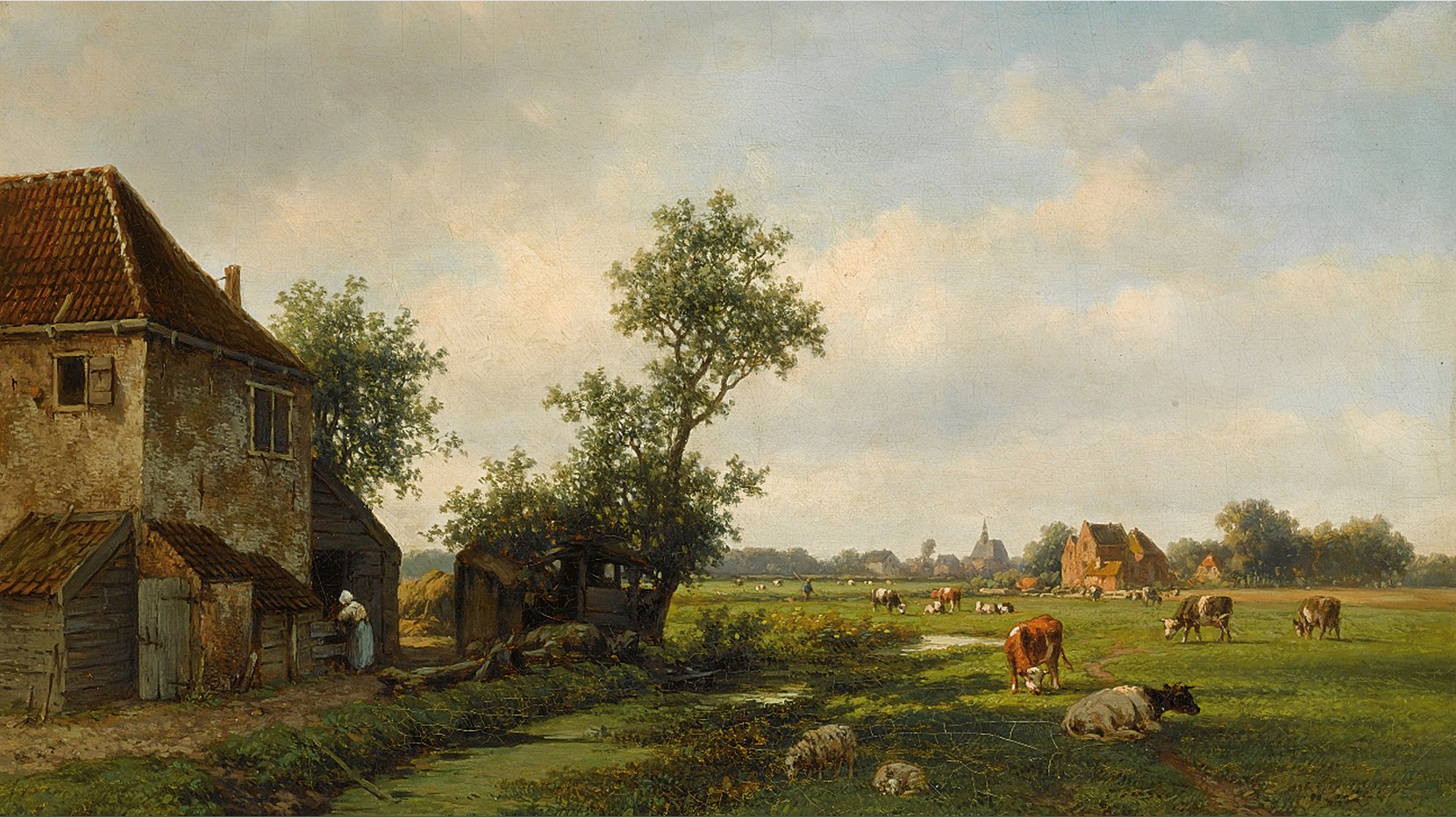 A sunny landscape with cattle near a farm